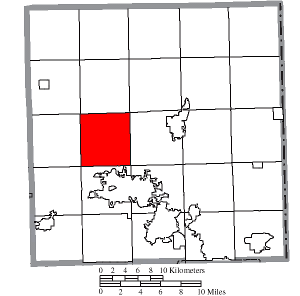 Map of the municipal and township boundaries of Trumbull County, Ohio, United States, as of the 2000 census, with the location of Champion Township highlighted. Township borders are shown only in unincorporated areas in order to differentiate incorporated and unincorporated areas more clearly.